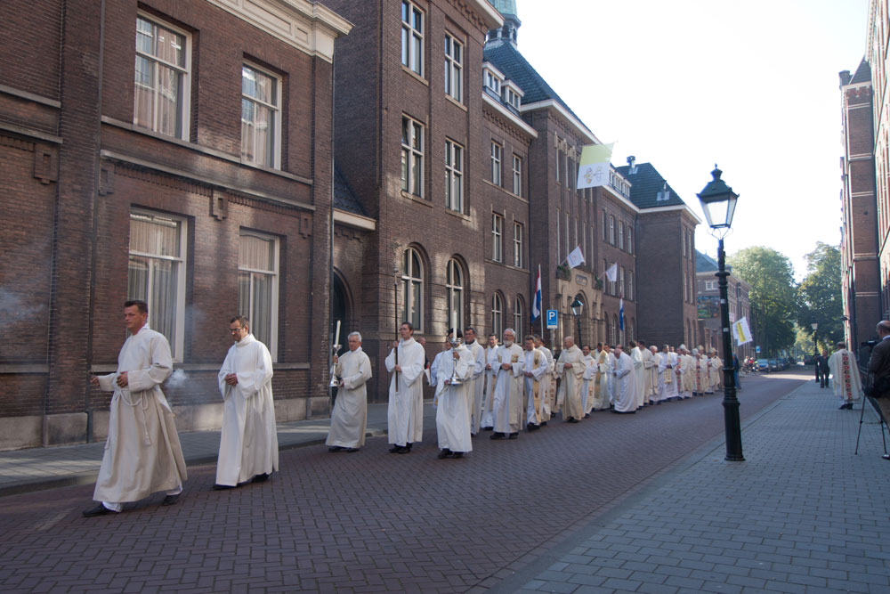 Procession from the Sint-Janscentrum to the Sint-Janskathedraal during the 25 year anniversary.